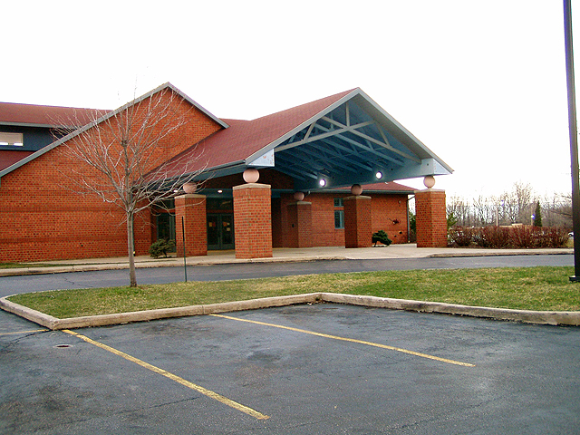 This is a photograph of the Geneva Public Library in Geneva, Ohio. It is located across the street from the old Geneva High School. The photograph was taken on March 31, 2006. I release all rights to this photograph.